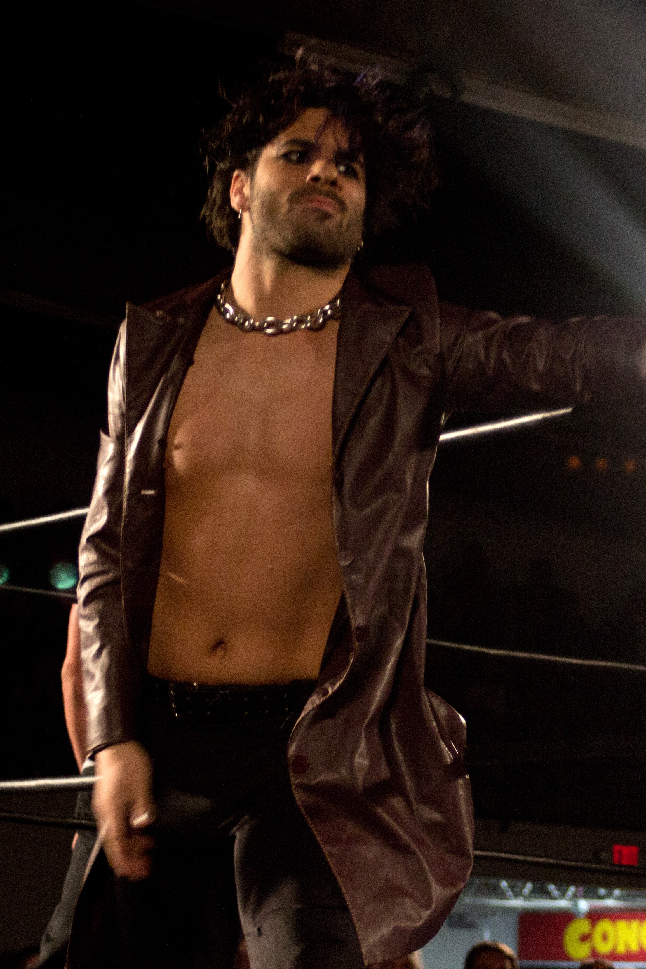 Jimmy Jacobs in January 2014 at ROH's first show in Nashville. Cropped and auto-contrasted.